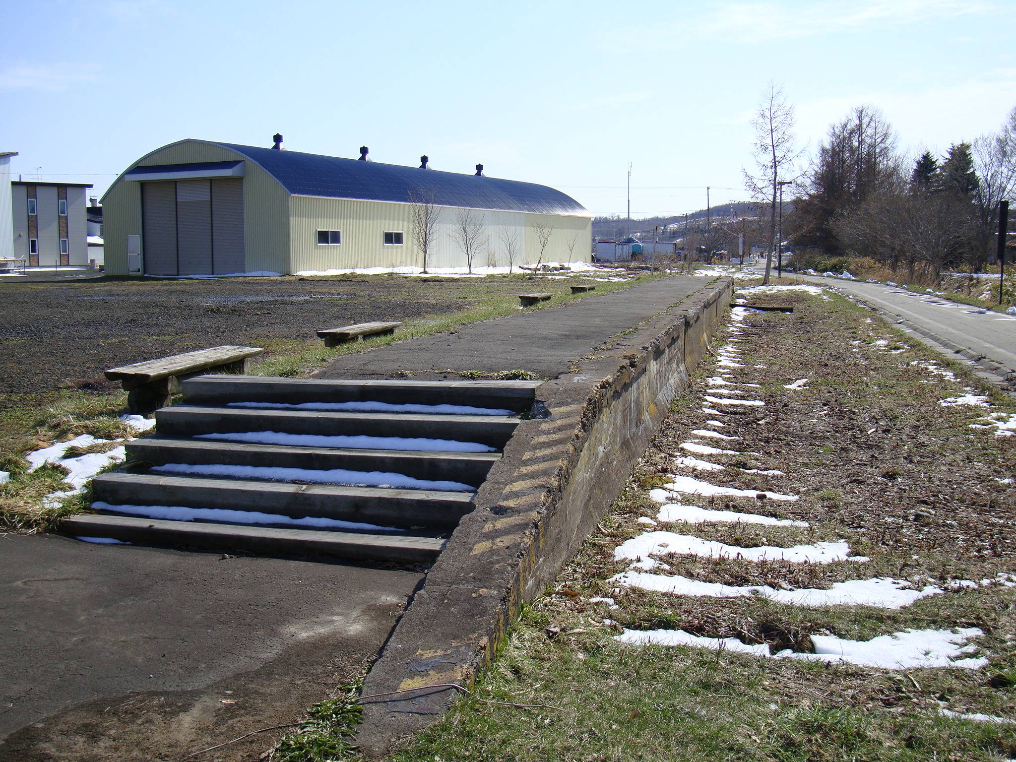 Notoro Station removal trace on Yūmō Line.